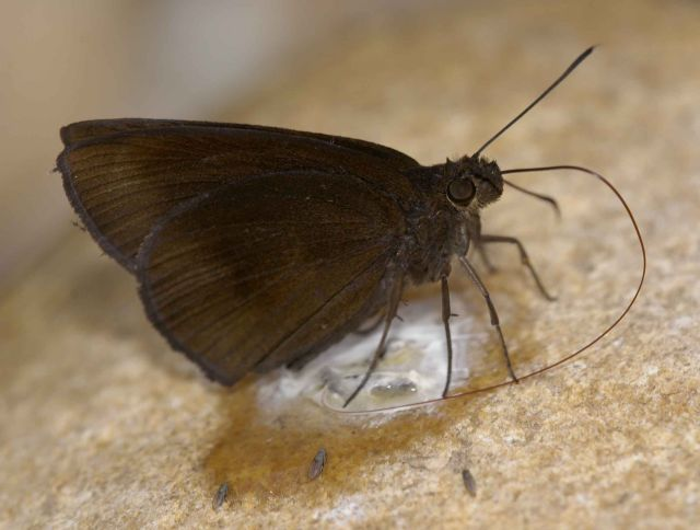 Chocolate Demon, Ancistroides nigrita at Namdapha National Park (India)